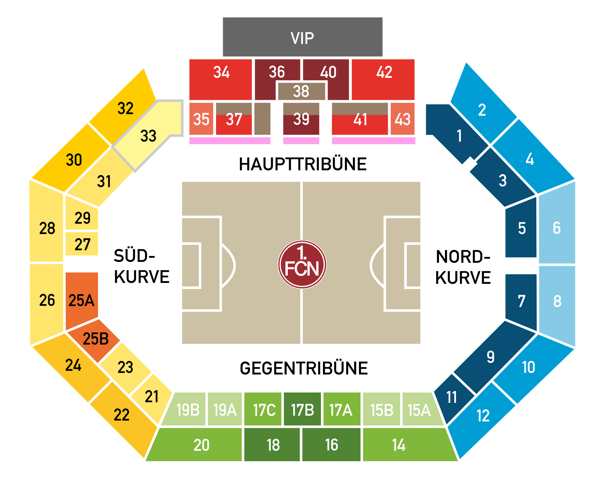 Map of Max-Morlock-Stadium in Nuremberg, Germany